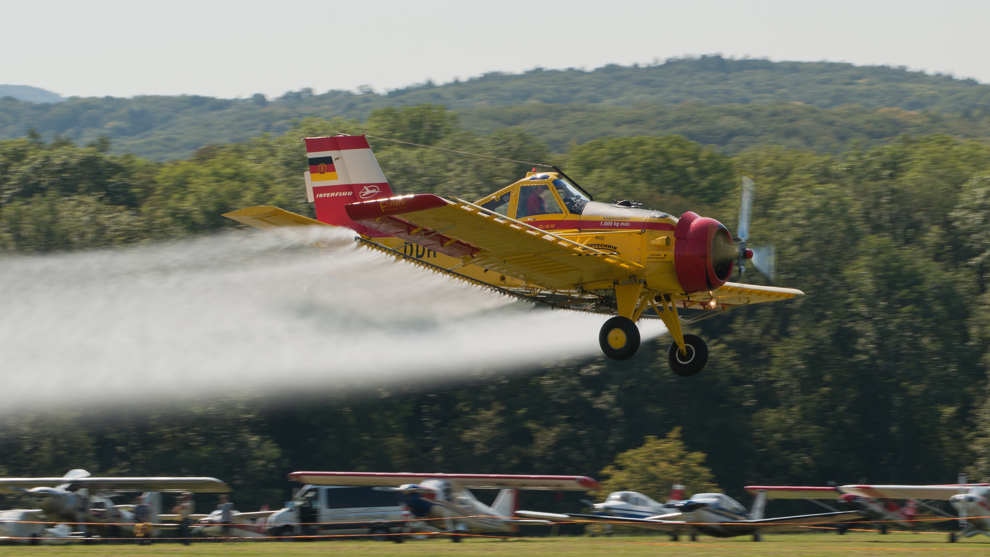 Interflug (Gehling Flugtechnik) PZL-Okecie 106AR/2M Kruk (reg. D-FOAB / DDR-TAB, cn 48040) at Oldtimer Fliegertreffen Hahnweide 2013.